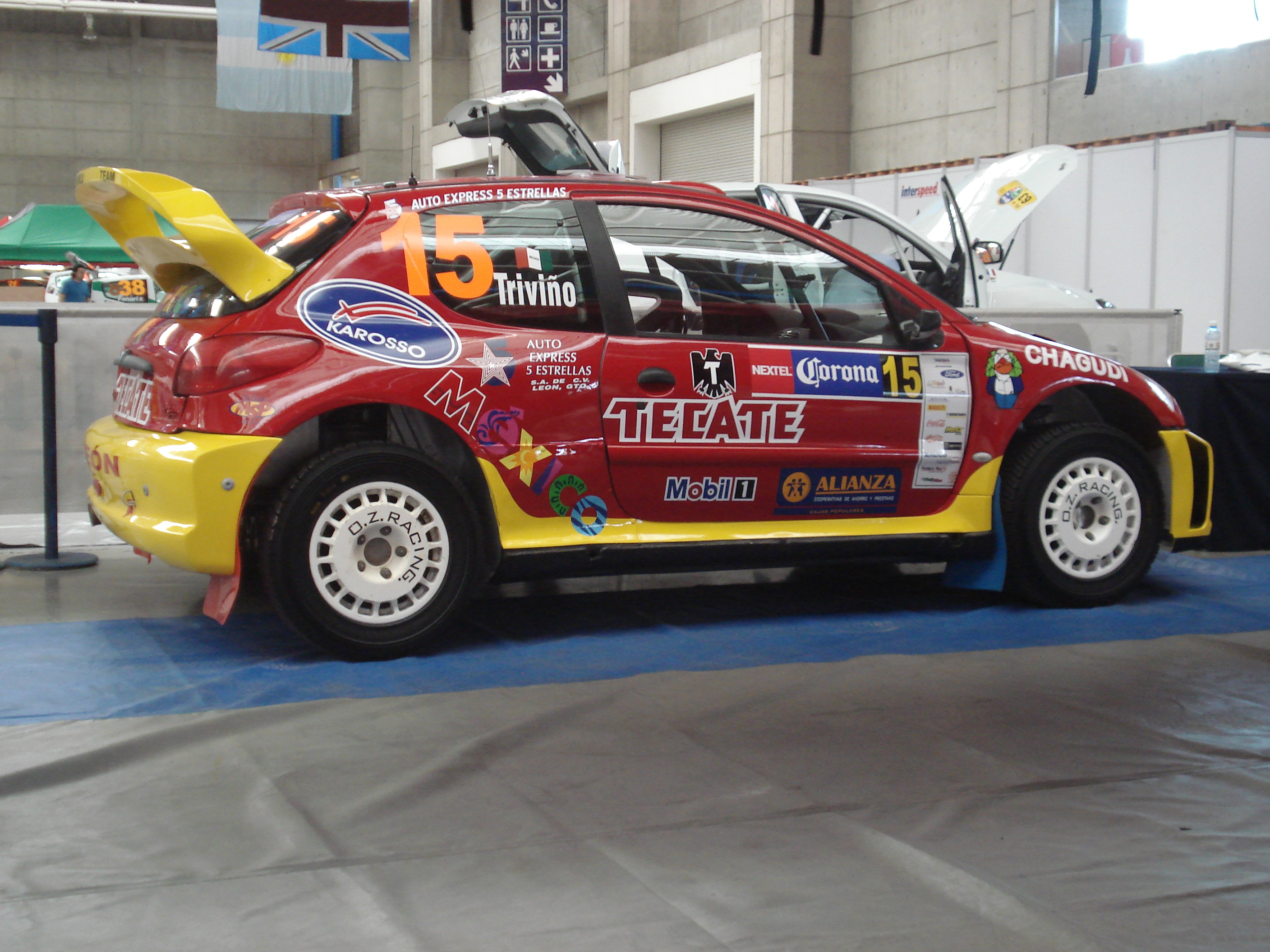 Ricardo Triviño's Peugeot 206 WRC car parked prior to the 2008 Rally Mexico at rally base in the Poliforum in Leon, Mexico.